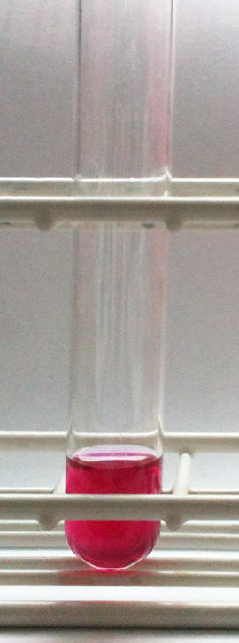 Enterobacter cloacae in Voges-Proskauer broth, showing a positive result after the appropriate chemicals have been added (VP is a test used to detect acetoin produced by bacteria)